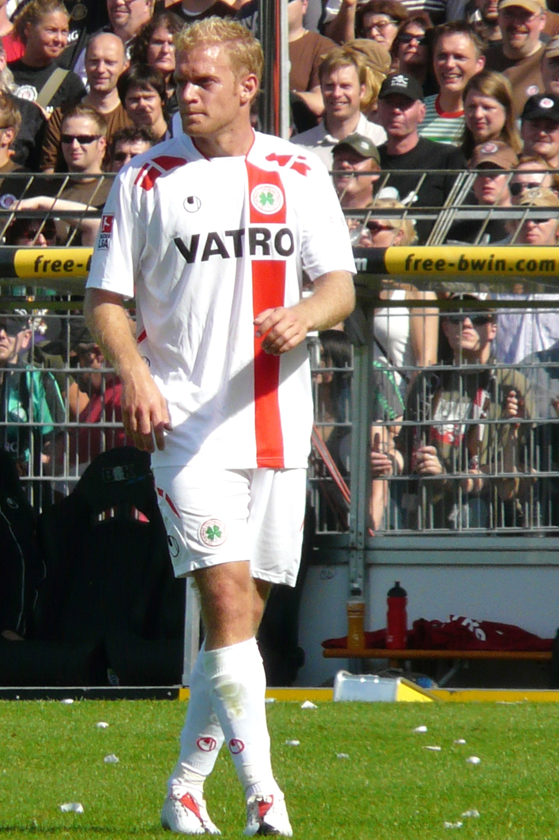 Marcel Landers as Player from Rot-Weiß Oberhausen